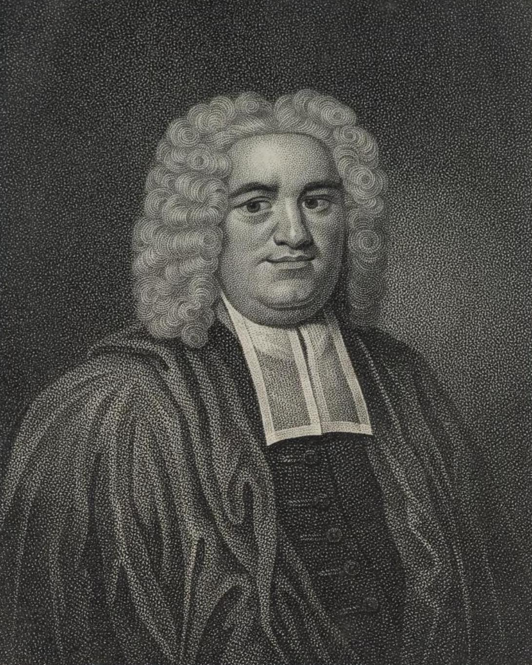 A portrait from the Welsh Portrait Collection at the National Library of Wales. Depicted person: Daniel Neal – British historian